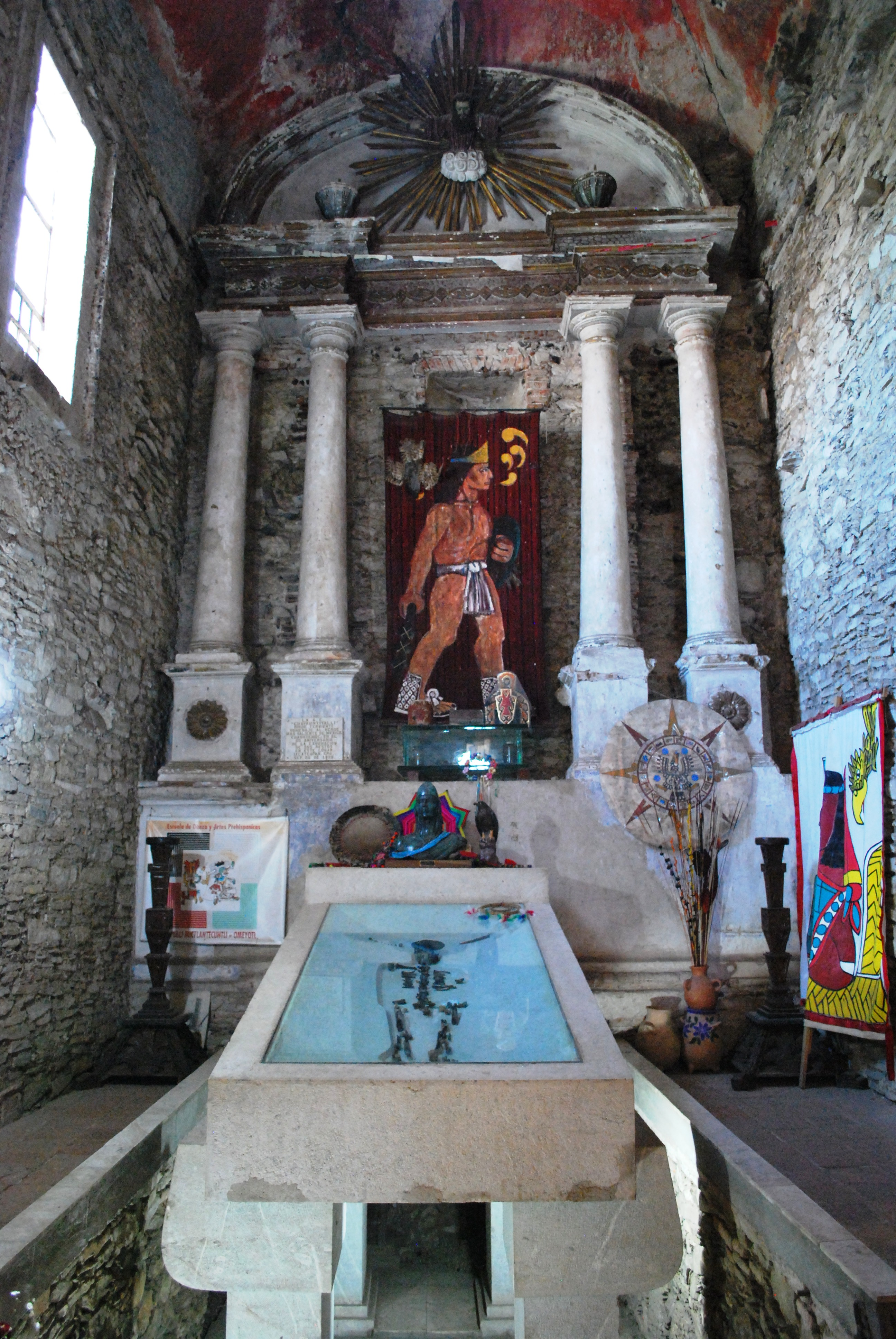 Altar of the Nation to Cuauhtemoc in the Museum of Cuauhtemoc in Ixcateopan, Guerrero